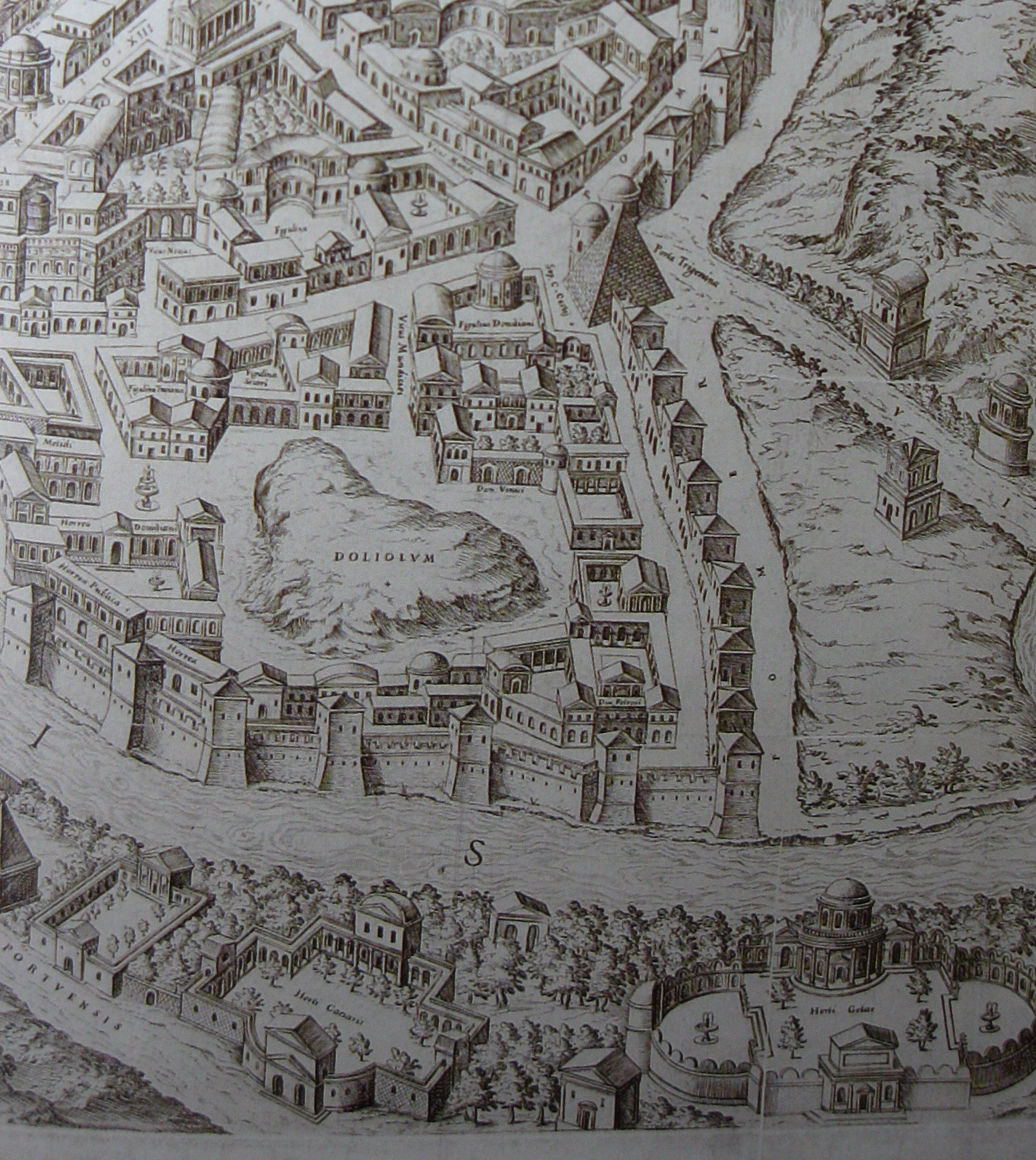 1574 Duperac Ancient Rome Map